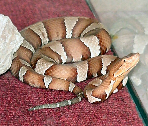 Trans-Pecos Copperhead, Agkistrodon contortrix pictigaster in captivity